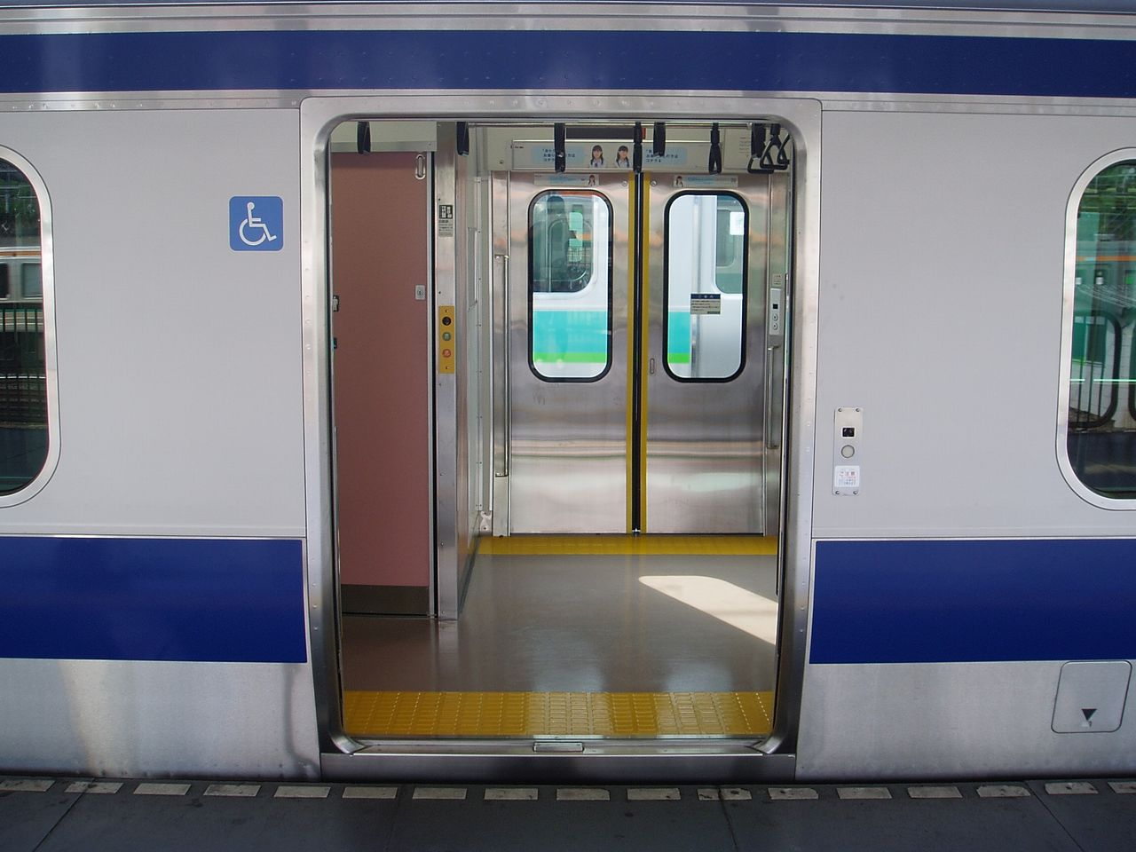 East Japan Railway Co.,type E531 door